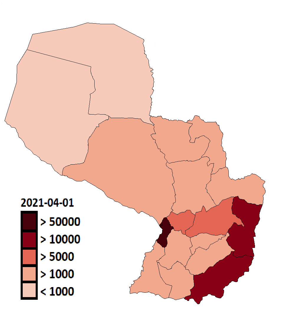 COVID-19 Outbreak Cases in Paraguay